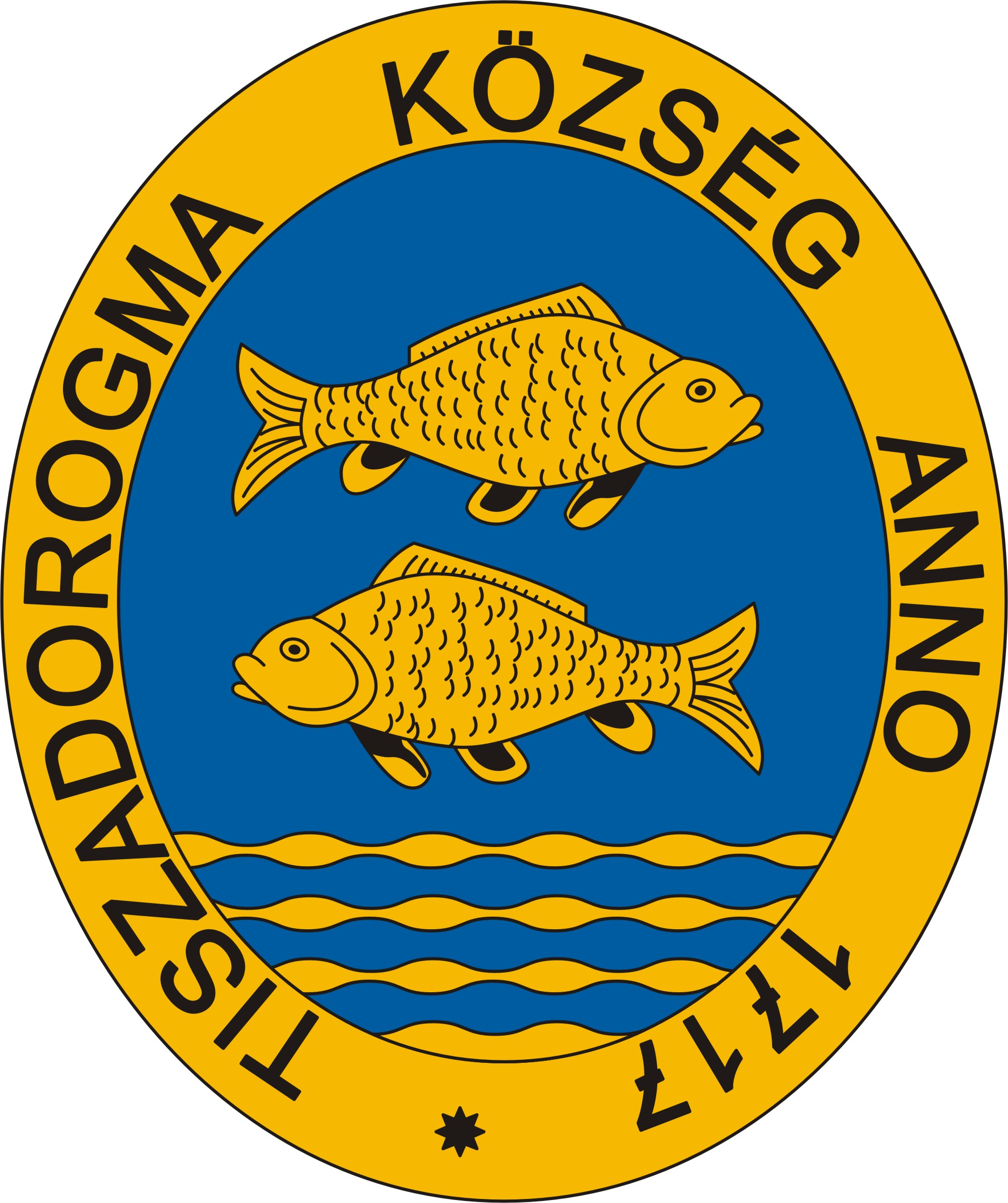 Coat of arms of Tiszadorogma, Hungary